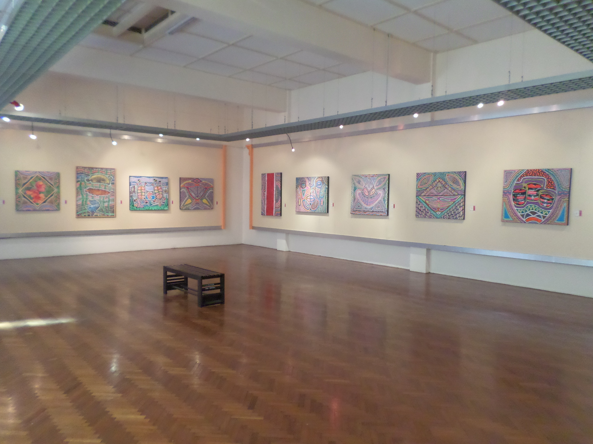 Malacca Art Gallery, Malacca, MalaysiaBahasa Melayu: Balai Seni Lukis Melaka, Melaka, Malaysia